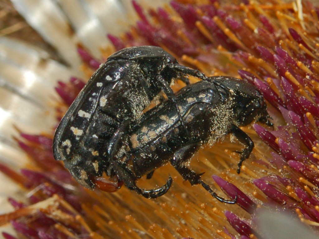 Oxythyrea funesta